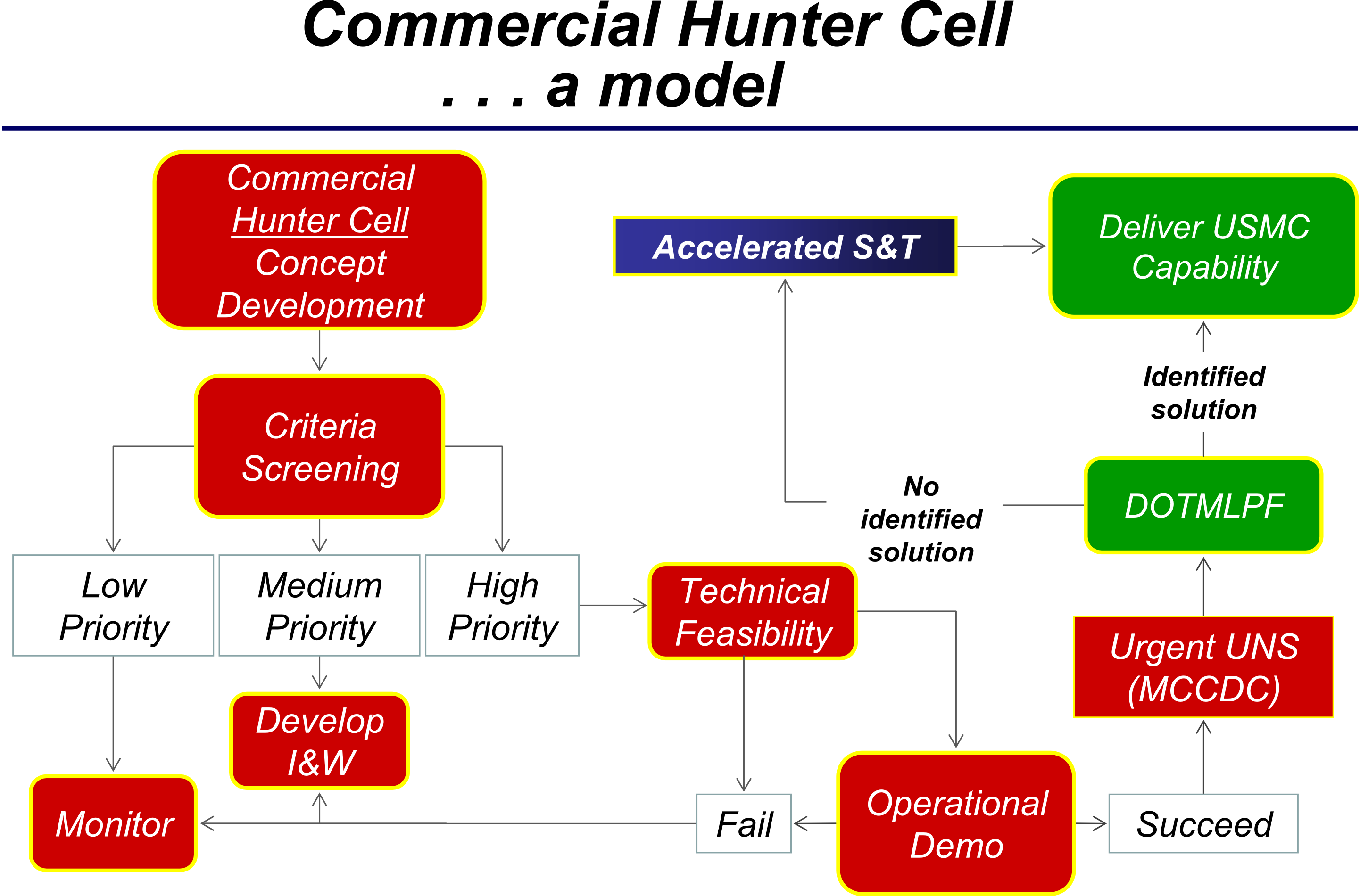 A diagram showing the "Commercial Hunter Cell" model